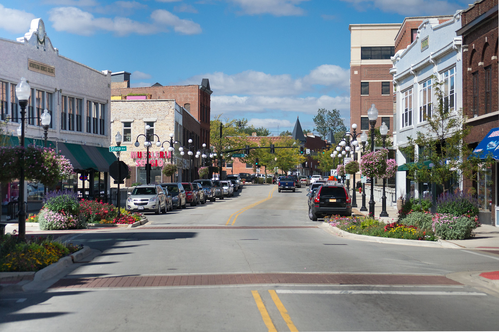 Stolp Island, downtown Aurora, IL